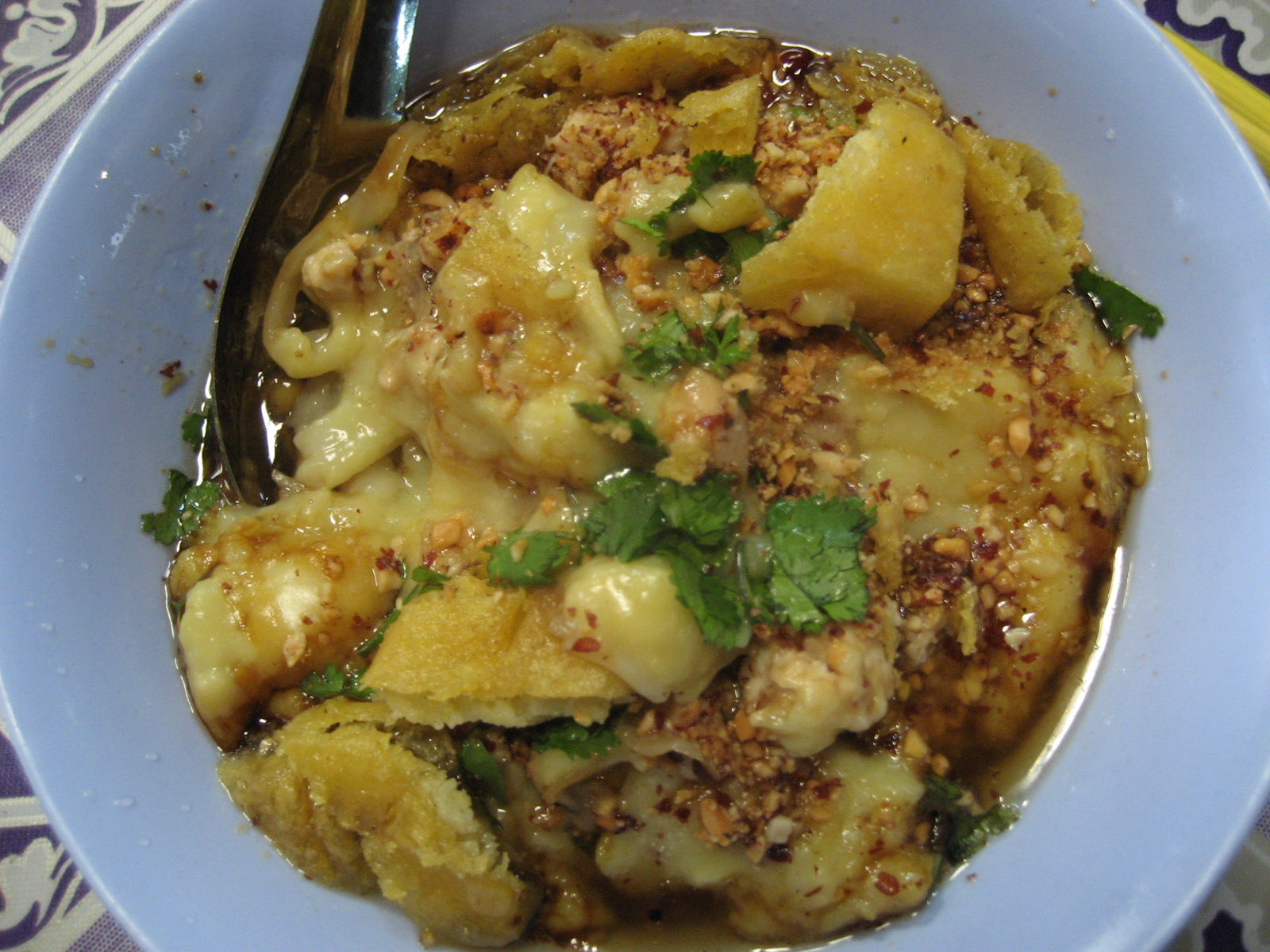 To hpu nway (warm Burmese tofu) and to hpu gyaw (Burmese tofu fritters) salad, dressed with peanut oil, chilli oil, dark soy sauce and rice vinegar, garnished with crushed roasted peanuts, crushed garlic and coriander at a market restaurant in Pyin U Lwin, Myanmar. Photographer User:Wagaung.